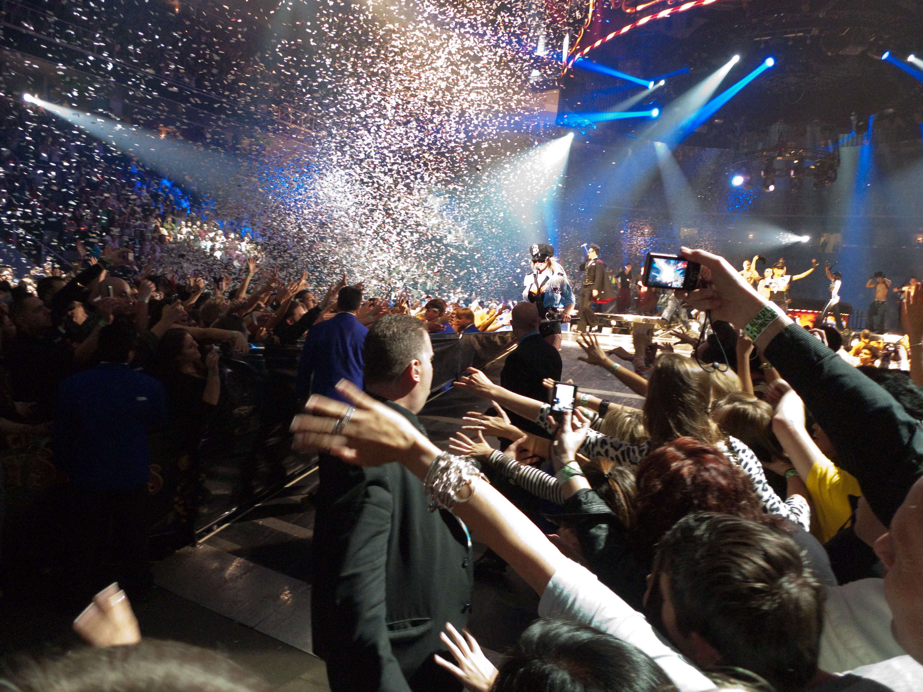 Spears exiting the stage after "Womanizer" at The Circus Starring Britney Spears.